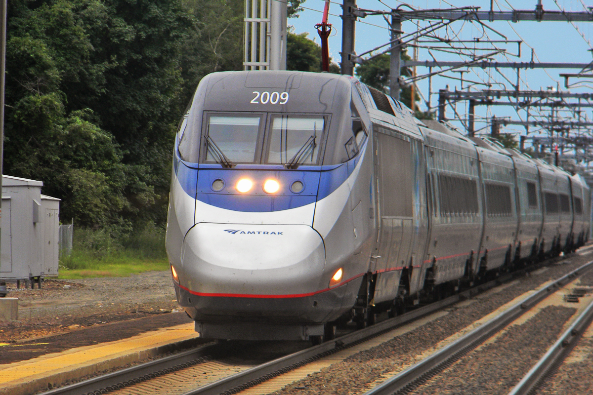 A northbound Amtrak Acela Express passing through Old Saybrook, Connecticut in 2011